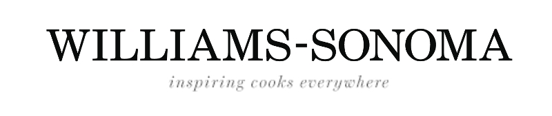 logo from williams_sonoma.com